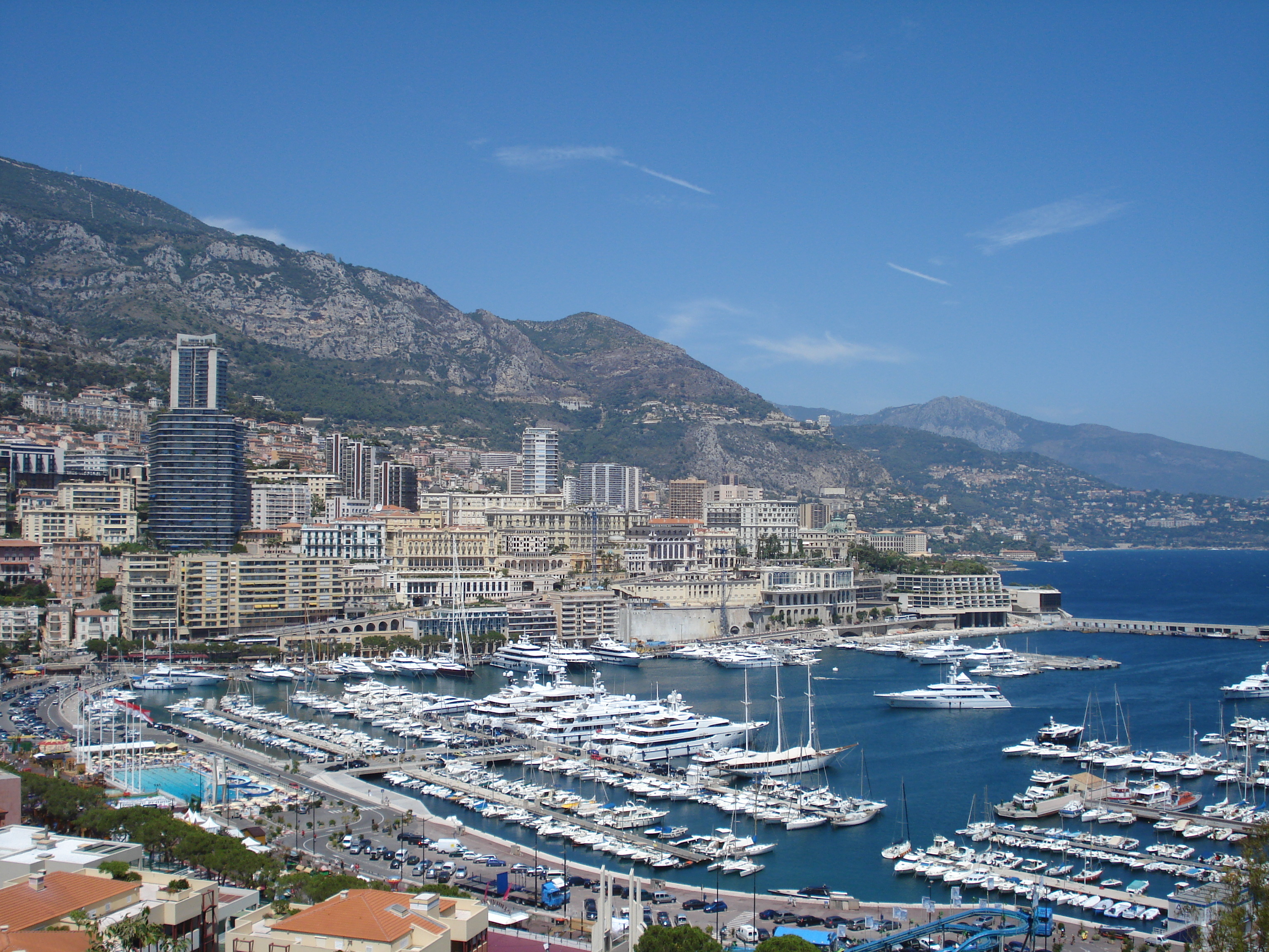 General view of Monaco